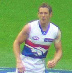 Robert Murphy, Australian rules footballer